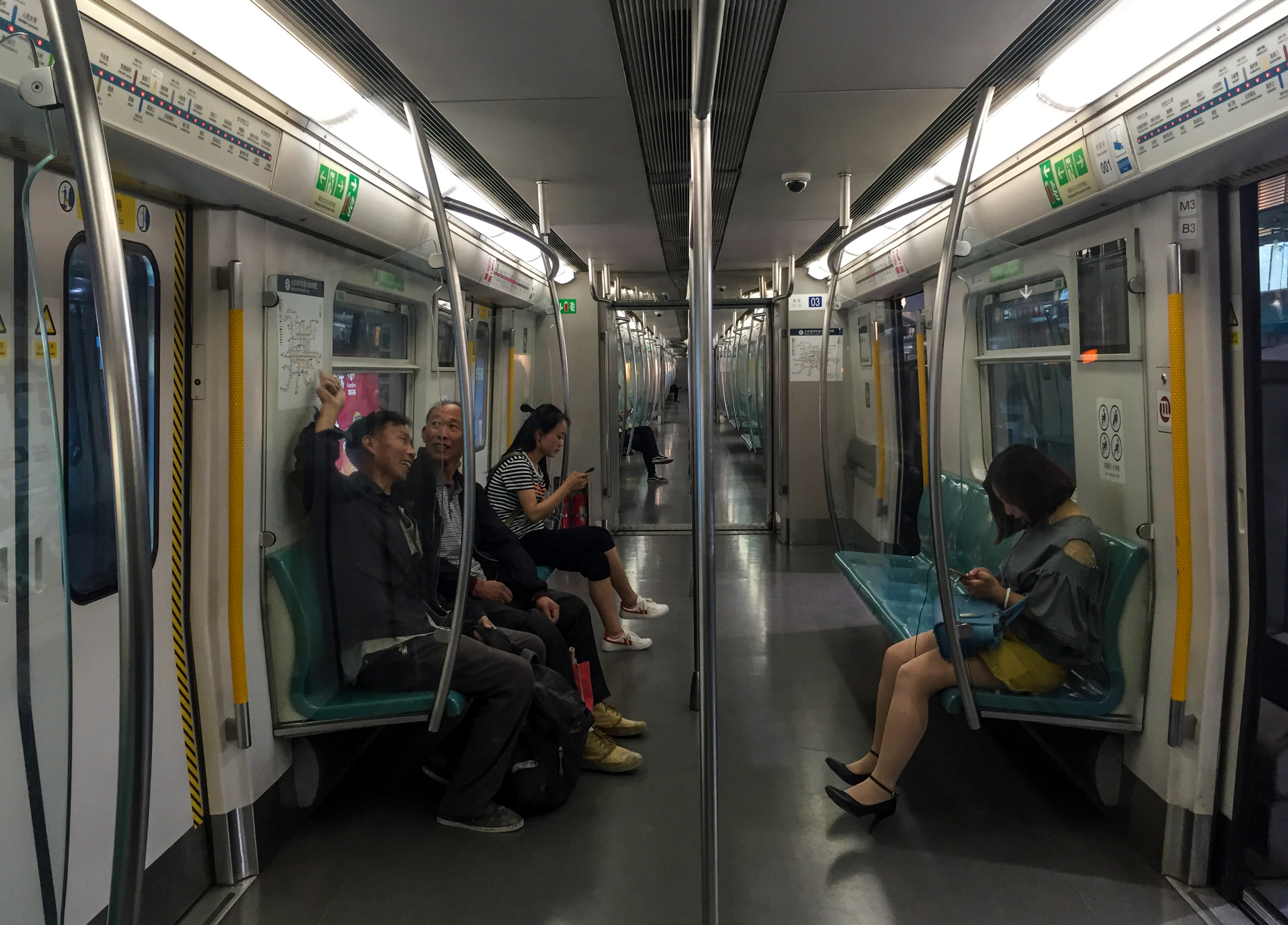 Taken at Anheqiao North Station, the very start of L4. Surprised to catch this trainset 001.